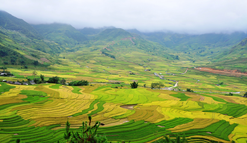 Rice Terraces in Lim Mong Valley, Mu Cang Chai District, Yen Bai Province, Vietnam